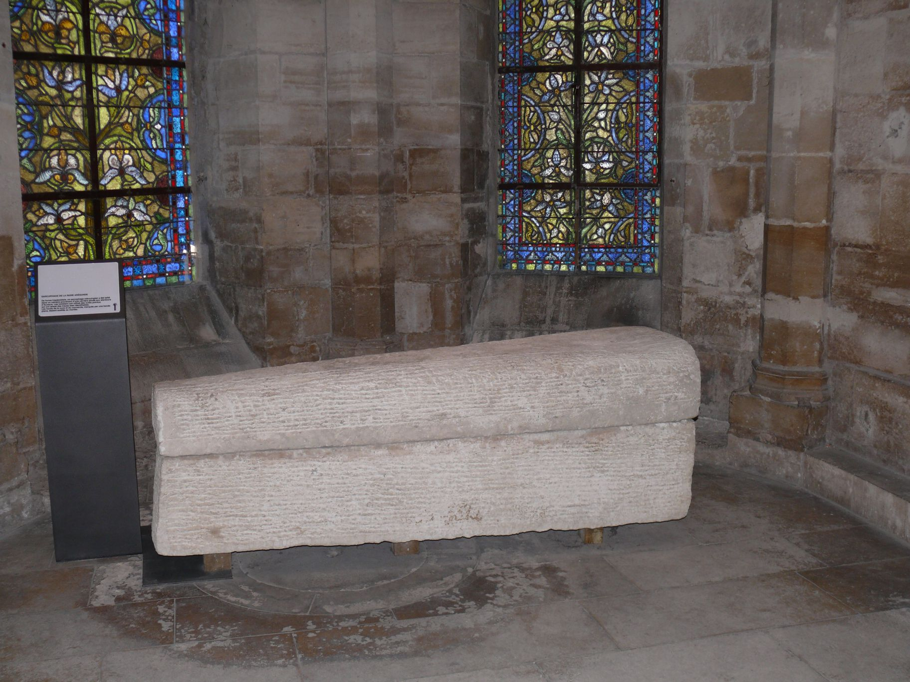 Sarcophagus of the queen Aregund in the Saint Denis Basilica.